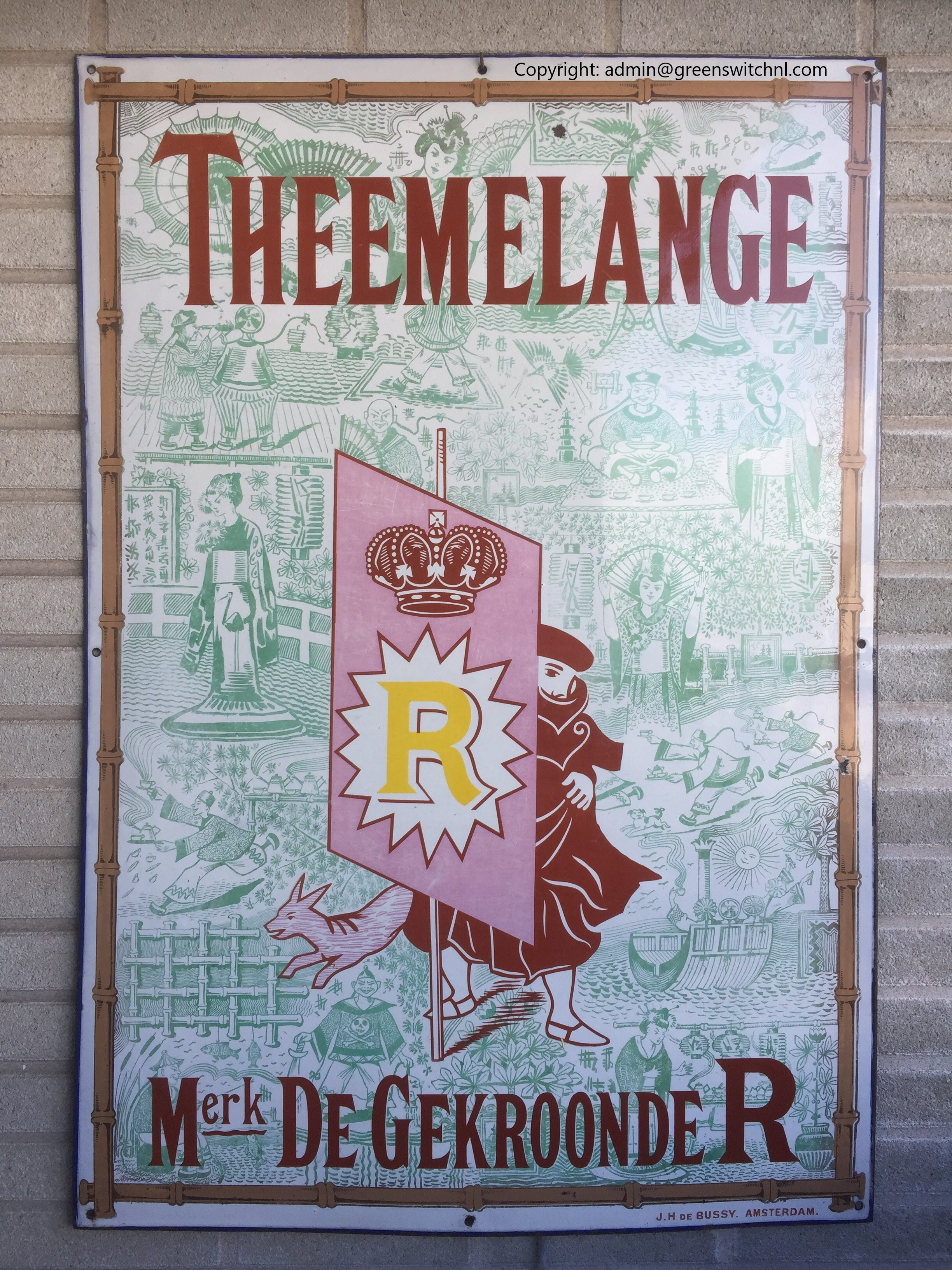 Enamel Billboard of Van Rossem's Tea blend Brand The Crowned R. hanging on a light gray stone wall. Photo was taken at 10.51 a.m. on 7 july, 2020 in Rotterdam. Around 1900, from a private collection. The background shows quasi Chinese illustrations in blueish green, the foreground shows a man holding a shield with crowned R. A small dog jumps away behind him.